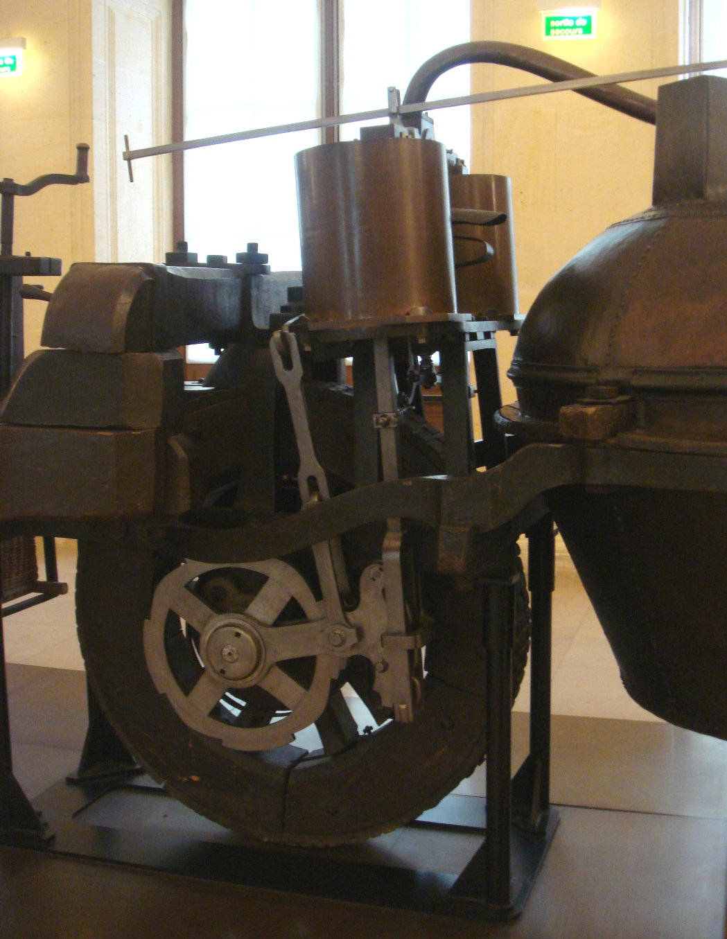 Engine of the Cugnot machine, photographed in the Musee des arts et Metiers, Paris